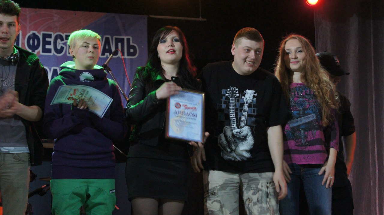 Музыканты X Всероссийского фестиваля «Рок-Февраль — 2014»